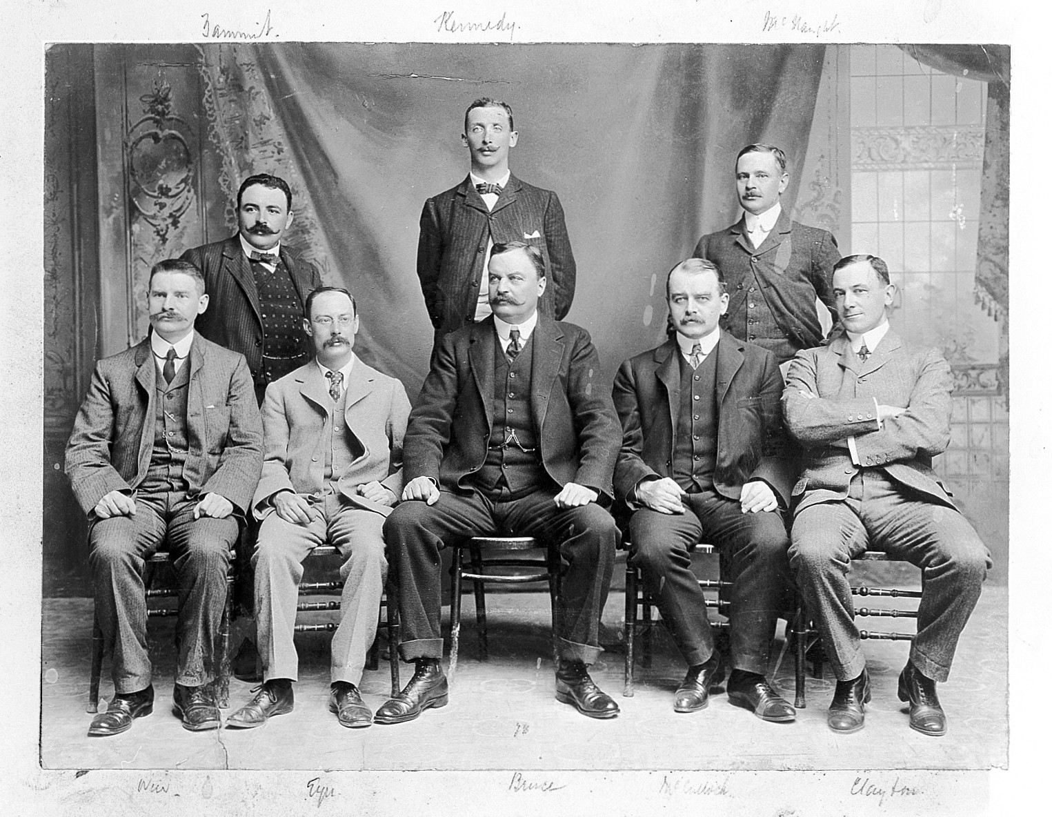 The members of the Mediterranean Fever Commission. Archives & Manuscripts Keywords: David Bruce; Mary Bruce OBE